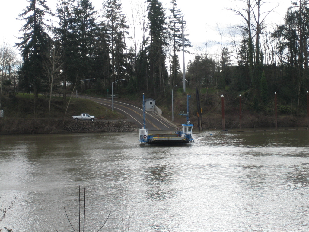 An image of the Canby Ferry crossing the Willamette River in Clackamas County, Oregon in March of 2006.